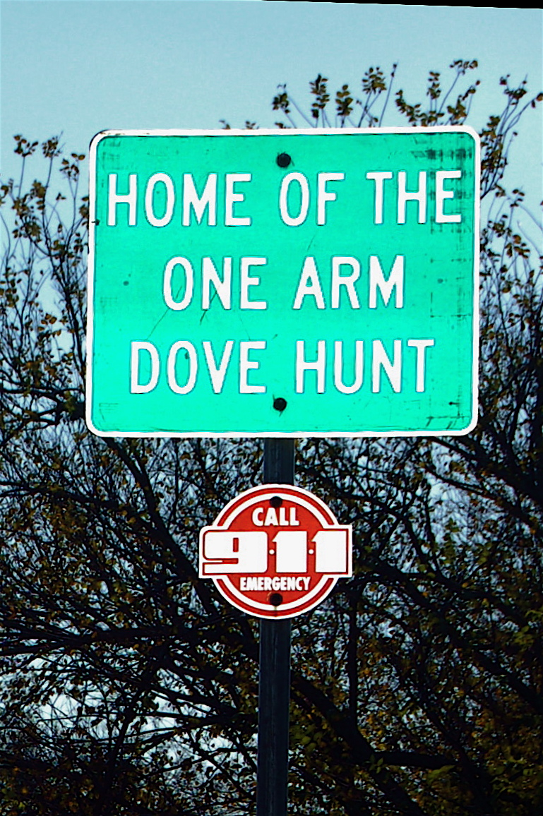 An Olney, Texas welcome sign saying "Home of the One-Arm Dove Hunt" an annual event that takes plece every Labor Day weekend to two days.